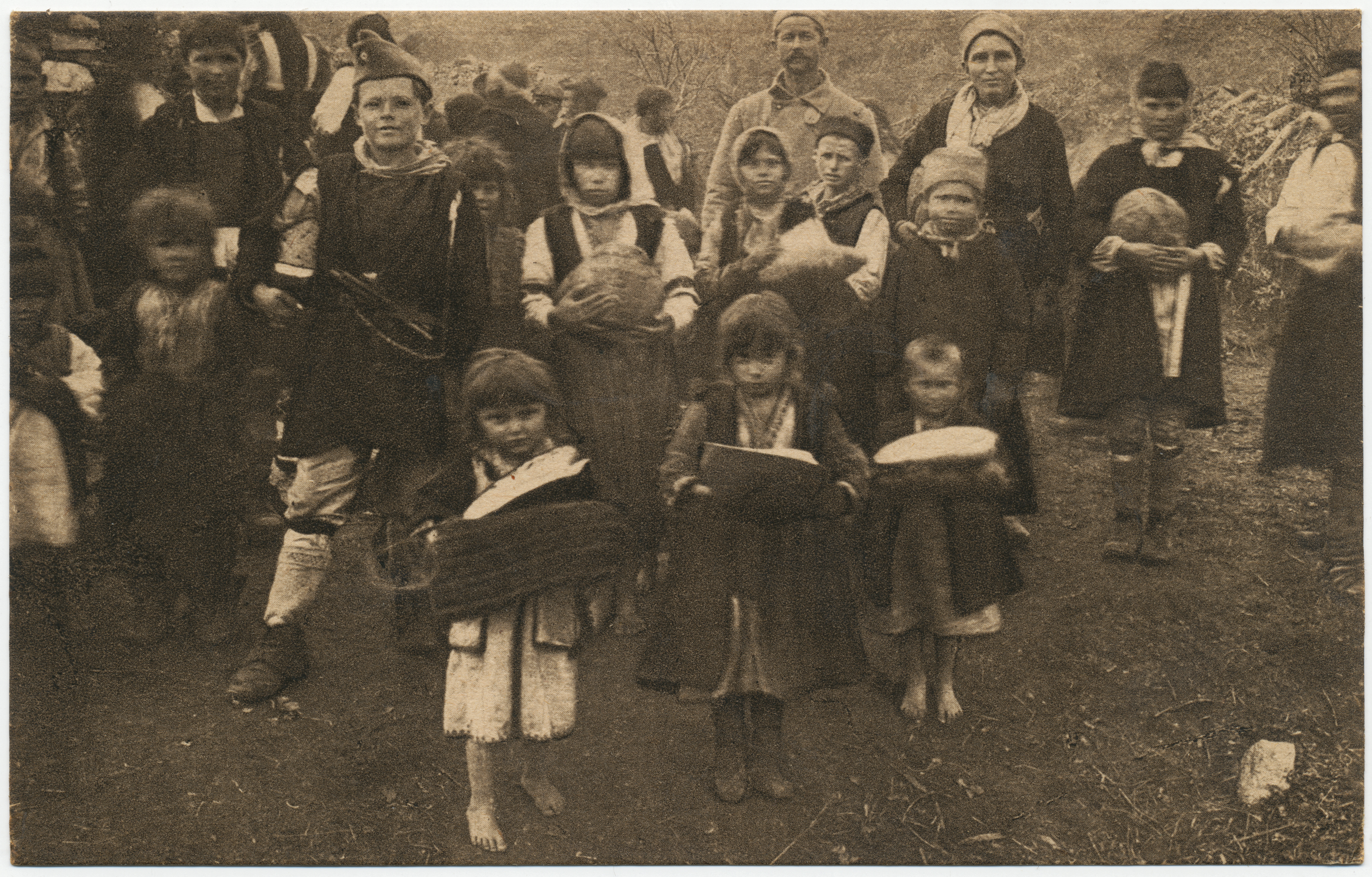 Released inhabitants after Kajmakčalan battle